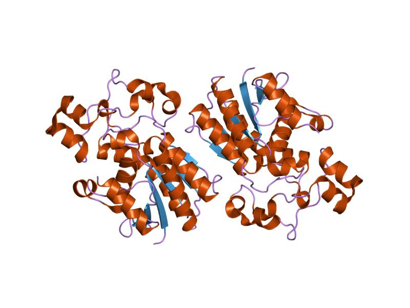 Cartoon representation of the molecular structure of protein registered with 1t8p code.